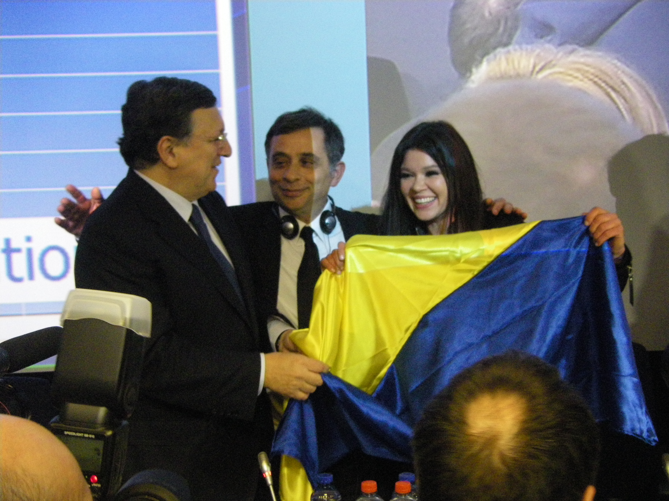 Ruslana with Josè Manuel Barroso, President of the European Commission, and Henri Malosse, President of the European Economic and Social Committee (EESC), at the Plenary Session of the EESC in Brussels